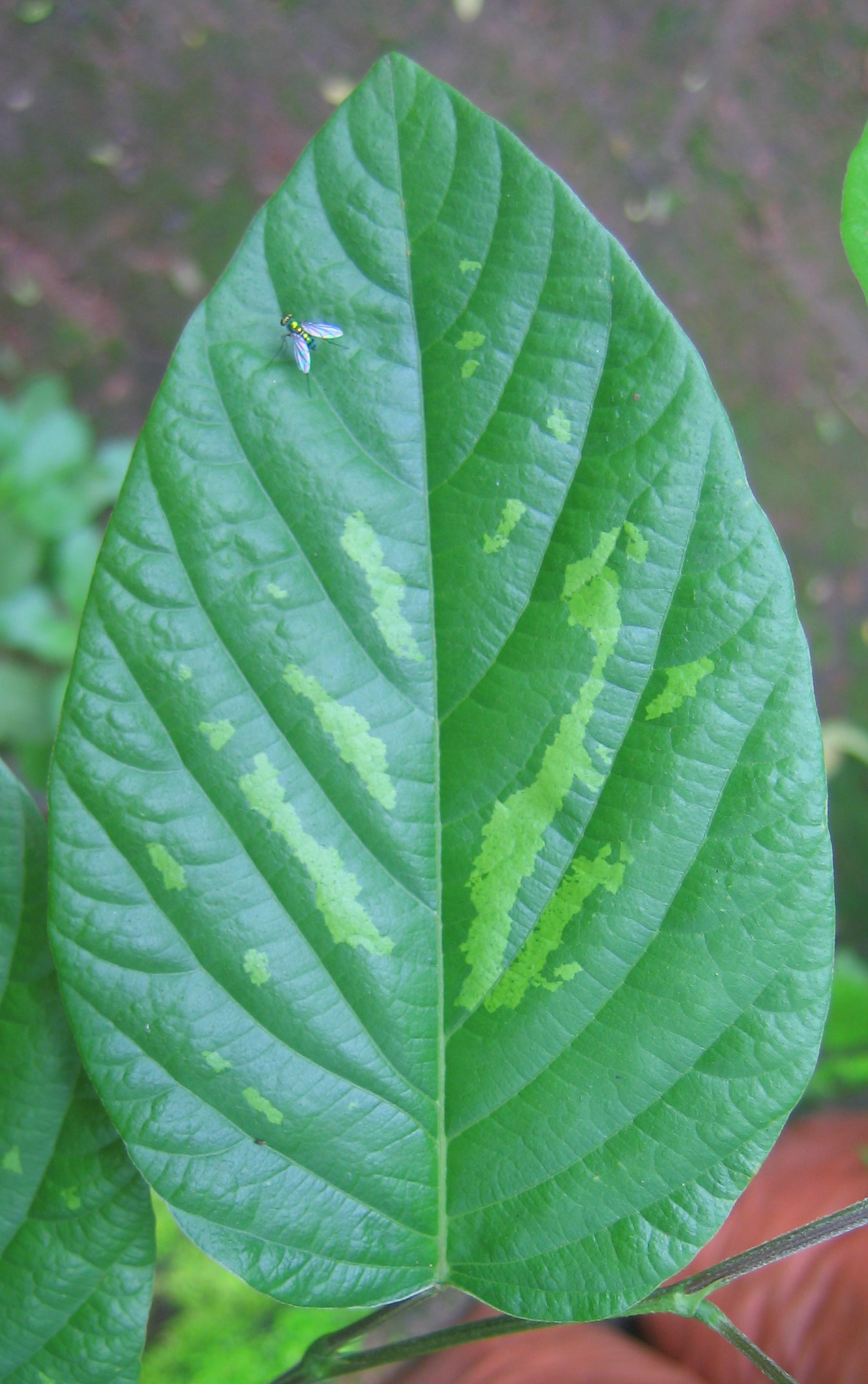 Desmodium gangeticum leaf ഓരില